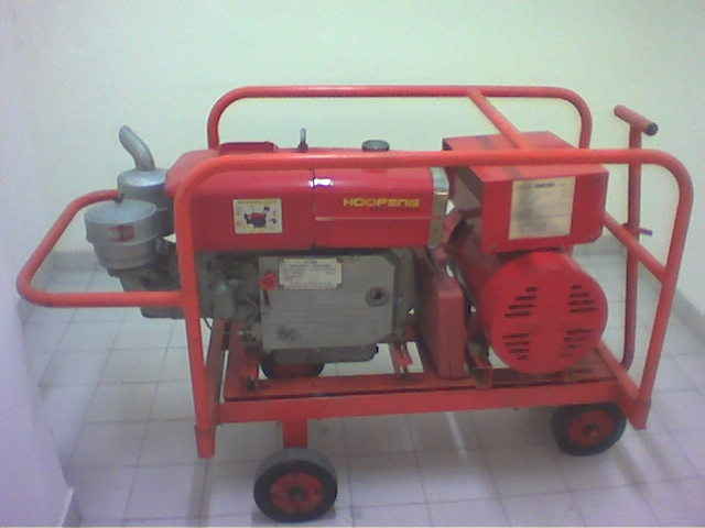 This is a generator.